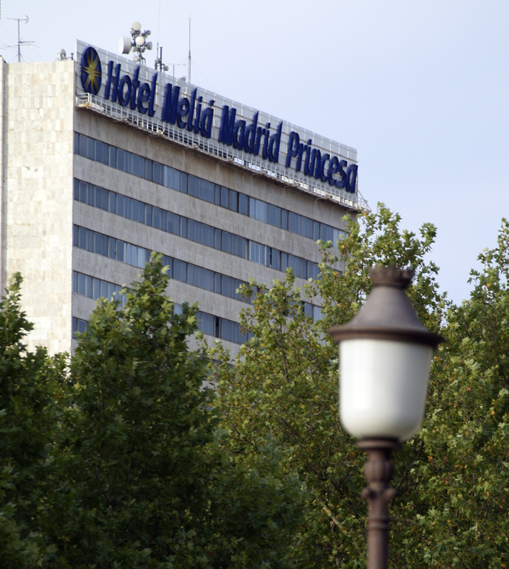 View of Hotel Meliá Madrid Princesa (Madrid, Spain) from Parque del Oeste (a park).